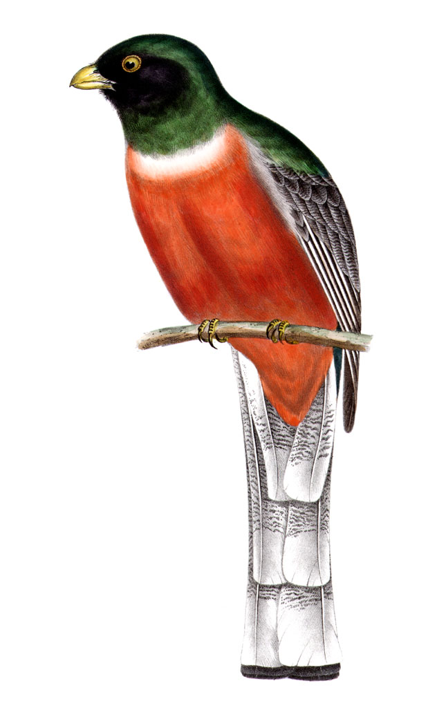 Elegant Trogon Trogon elegans, male, hand-colored lithograph